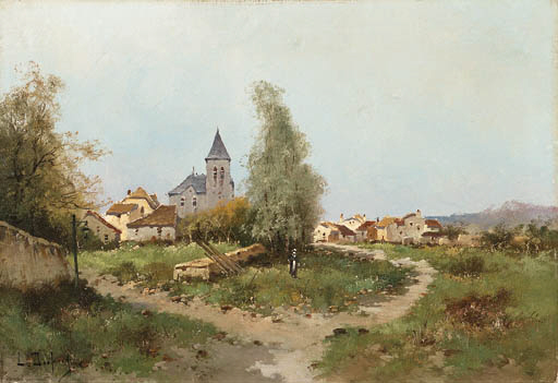 The path outside the village. Signed L.Dupuy., oil on canvas, 38.1 x 54.9 cm